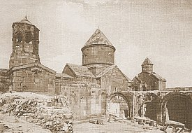 Monastery of Horomos, close to Ani, eastern Turkey.